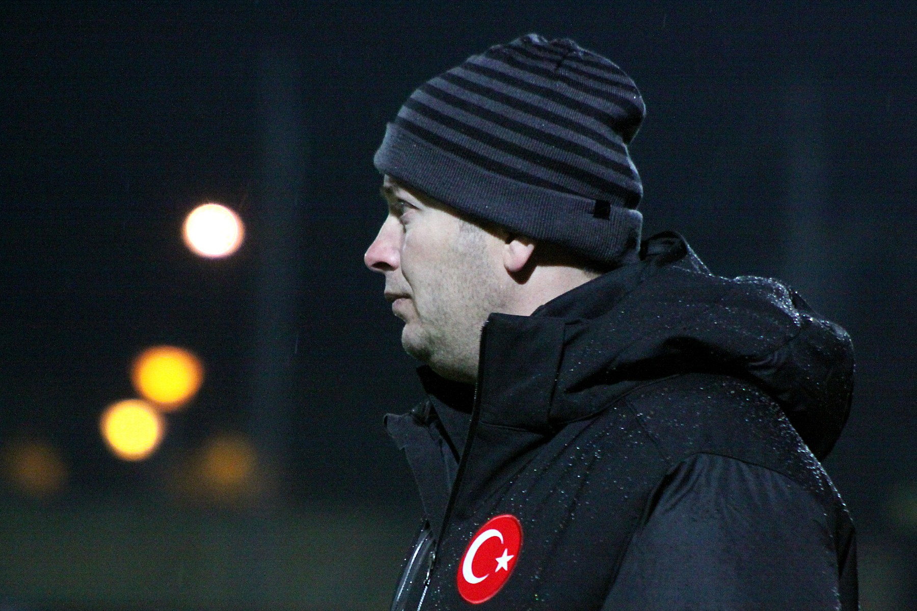 Friendly-match Austria U-21 vs. Turkey U-21 (2:0) on 2013-11-14 in Wiener Neudorf. – The photo shows Abdullah Ercan (head-coach of Turkey).